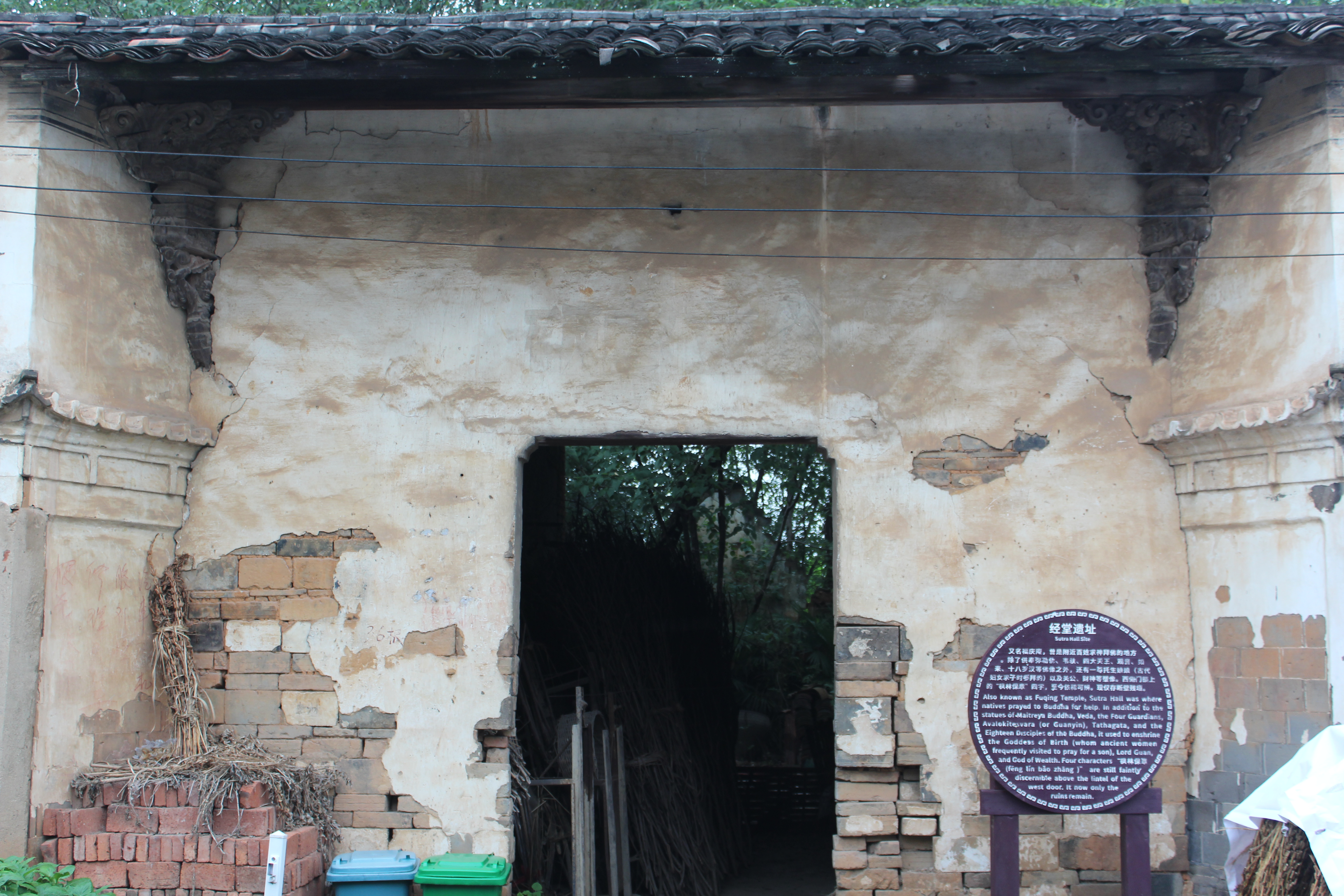 Photo of a historical building in Shangjing